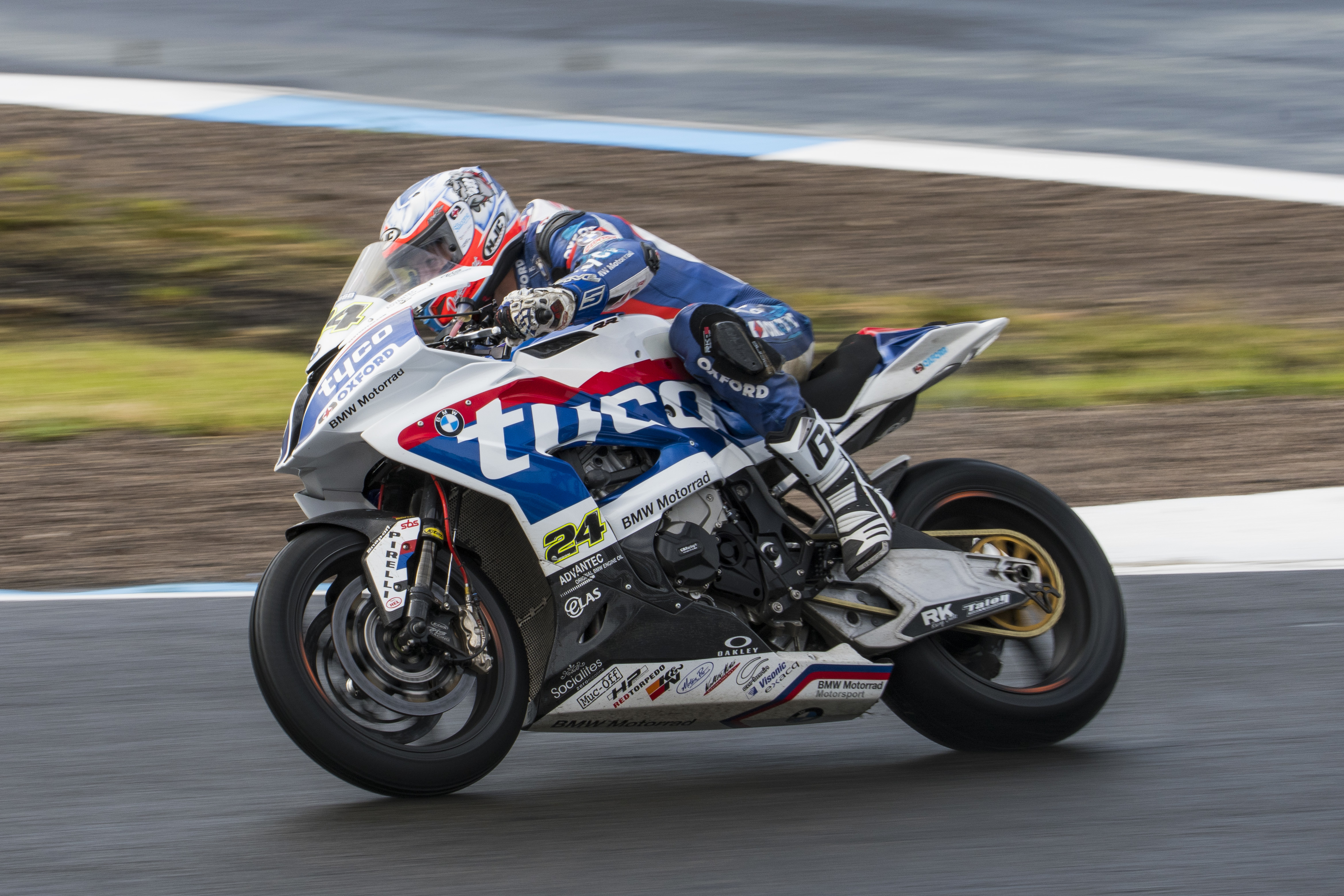 2016 British Superbike Championship Round 4, Knockhill – #24 Christian Iddon – BMW – Tyco BMW